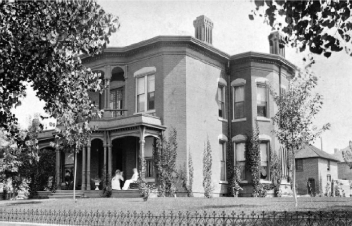 Taken about 1889 when the Evans bought the house. The caption says that it is a picture of the Evans Family at their new home. Source: Denver Library